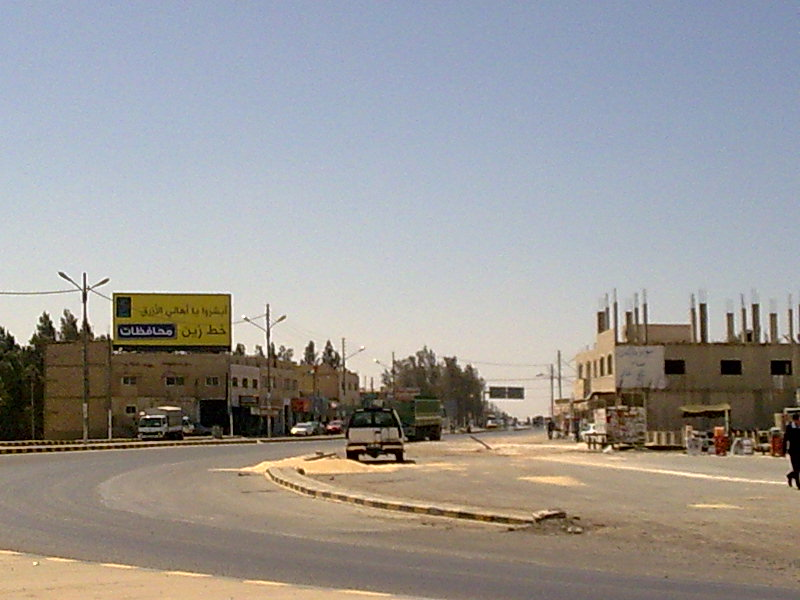 Self-taken in Azraq, Jordan, April 2009. Summary Self-taken in Azraq, Jordan, April 2009.